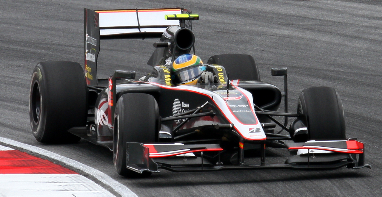 Formula One 2010 Rd.3 Malaysian GP: Bruno Senna (Hispania Racing) during Saturday 3rd Free Practice session.